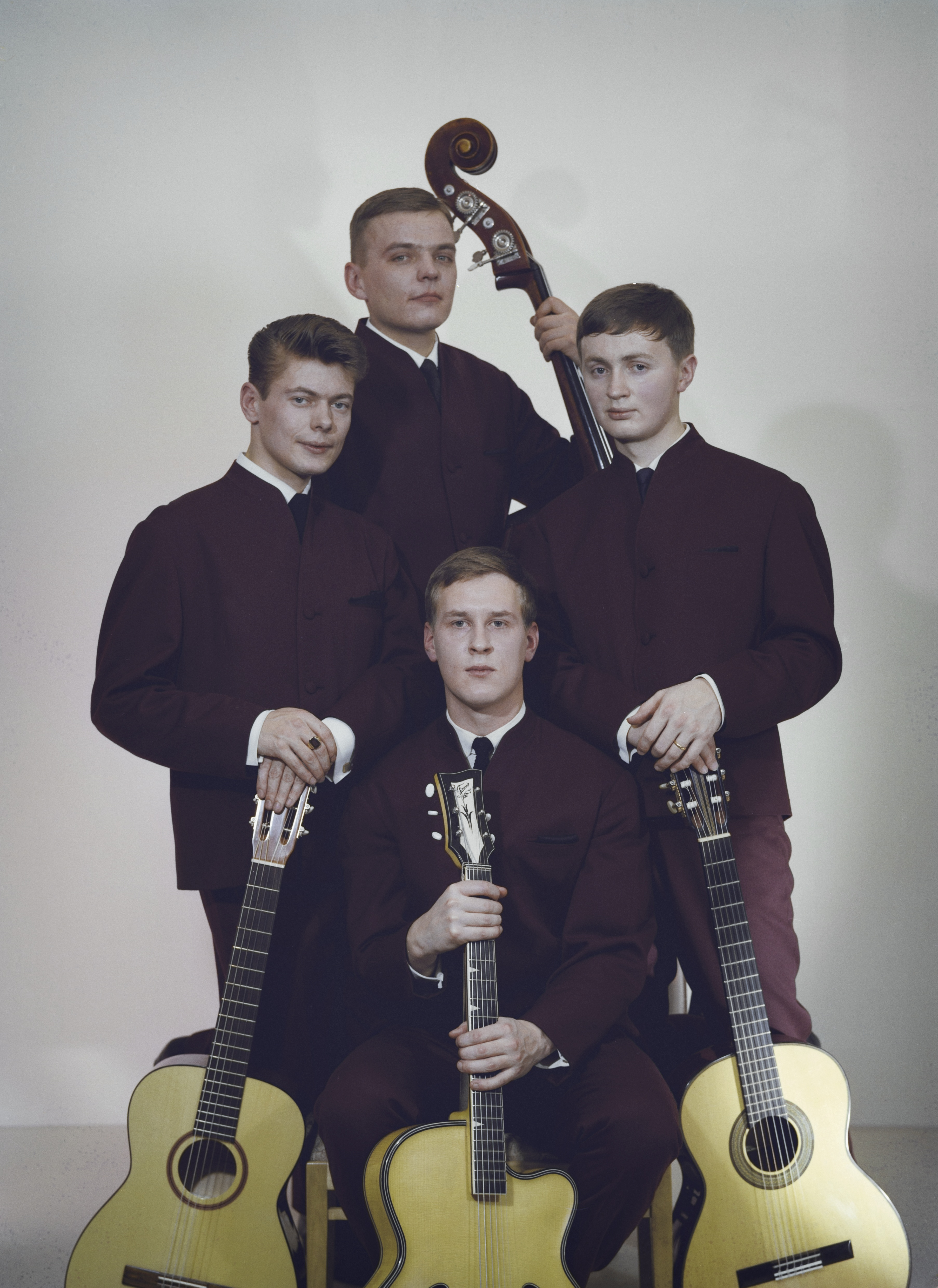 Photograph of the Finnish song group Kukonpojat (Juha Virkkunen, Jouko Eräkare, Tapio Lipponen and Seppo Porkka).